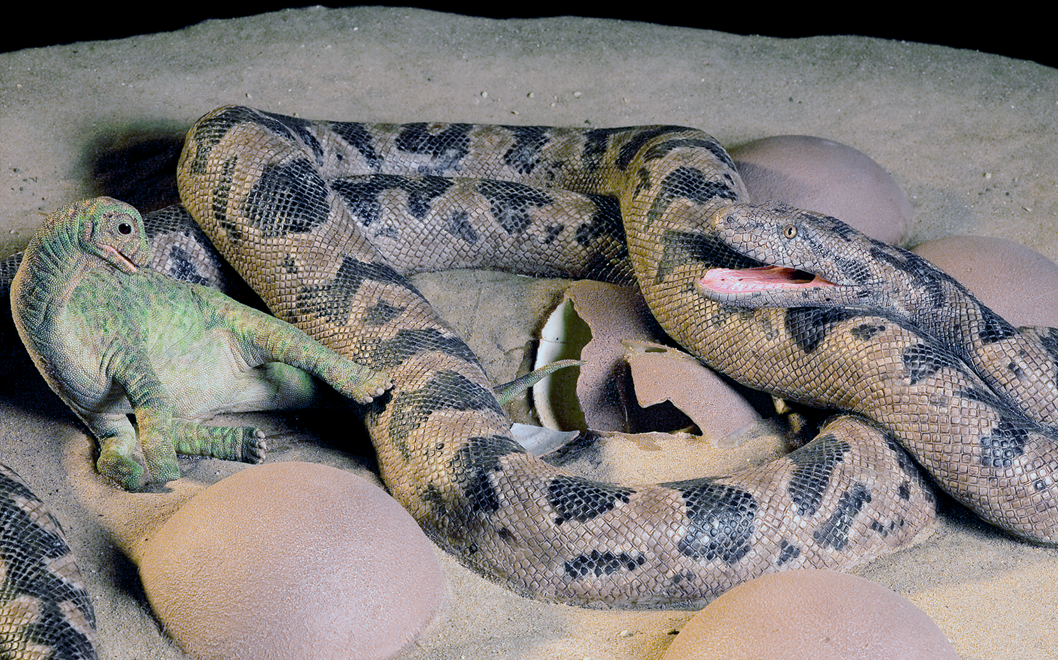 A Cretaceous snake Sanajeh indicus feeding on hatchling sauropod dinosaurs. A 3–5-meter-long madtsoiid snake, Sanajeh indicus, waits to feed on hatchling sauropod dinosaurs as they emerge from their eggs, in a scene from the Upper Cretaceous, some 70 million years ago. The sculpture is based on a fossil dinosaur nest from western India, reported in this issue of PLoS Biology [11]. The scales and patterning of the snake's skin is based on modern macrostomatan snakes, relatives of the fossil form. The hatchling dinosaur is reconstructed from known skeletal materials, but its color is conjectural. The eggs are based directly on the fossils. In making their detailed paleobiological interpretations, Wilson and colleagues [11] used all three methods advocated in this review—empirical observations of a remarkable specimen, coupled with comparison with modern analogs and biomechanical modeling. In detail, the authors incorporated museum-based research, field research, stratigraphy and sedimentology, histology, embryology, and use of modern analogs into their interpretation of Sanajeh. (Sculpture by Tyler Keillor and original photography by Ximena Erickson; image modified by Bonnie Miljour).